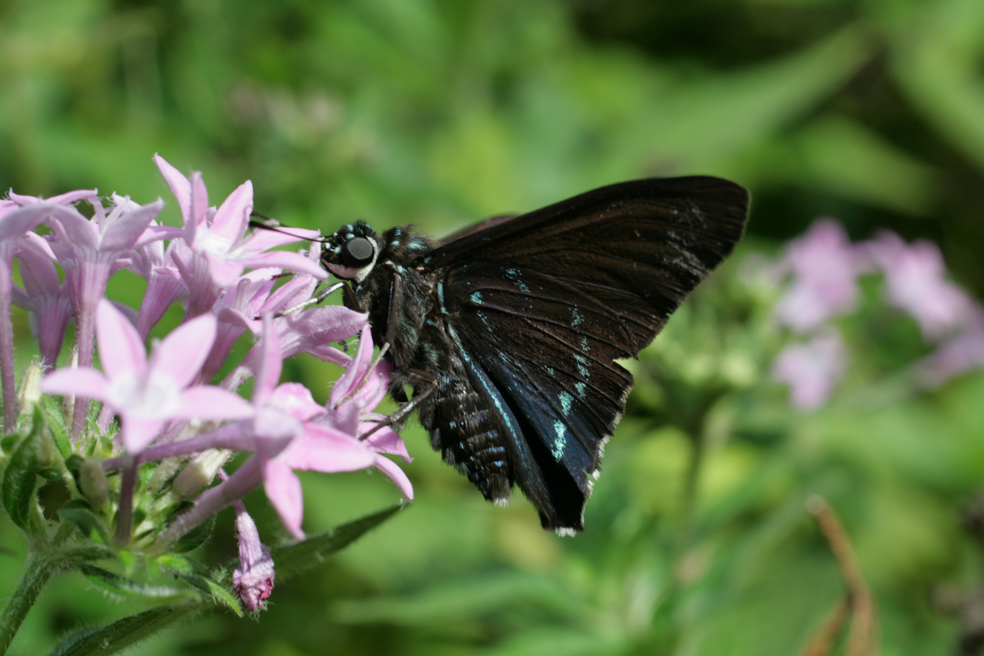 Mangrove skipper, Phocides pigmalion seen in in the wild in the butterfly island in Secret Woods Nature Center in Florida.